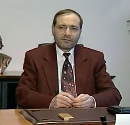 Yevhen Shcherban, Ukrainian politician, former member of the Ukrainian Verkhovna Rada